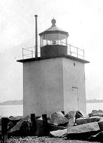 Derby Wharf Lighthouse, Salem Harbor, Massachusetts, USA